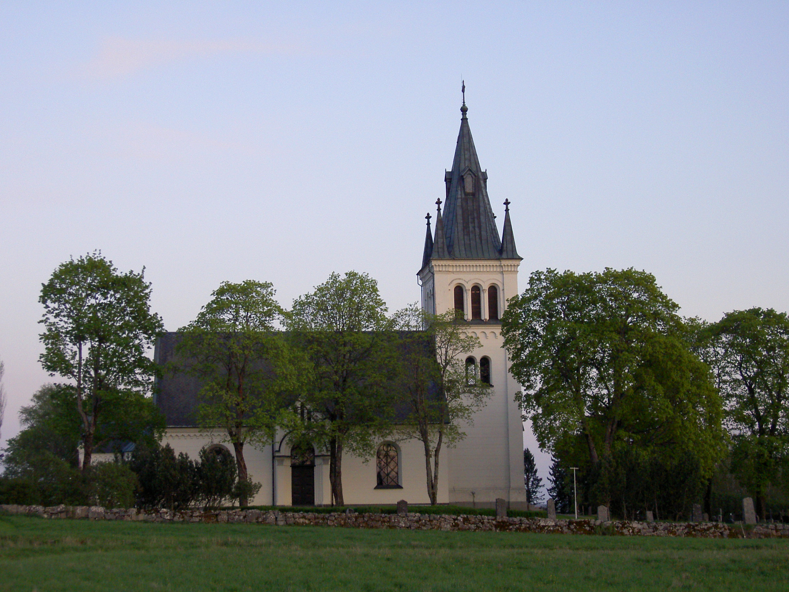 Church of Norrby, Sala, Sweden